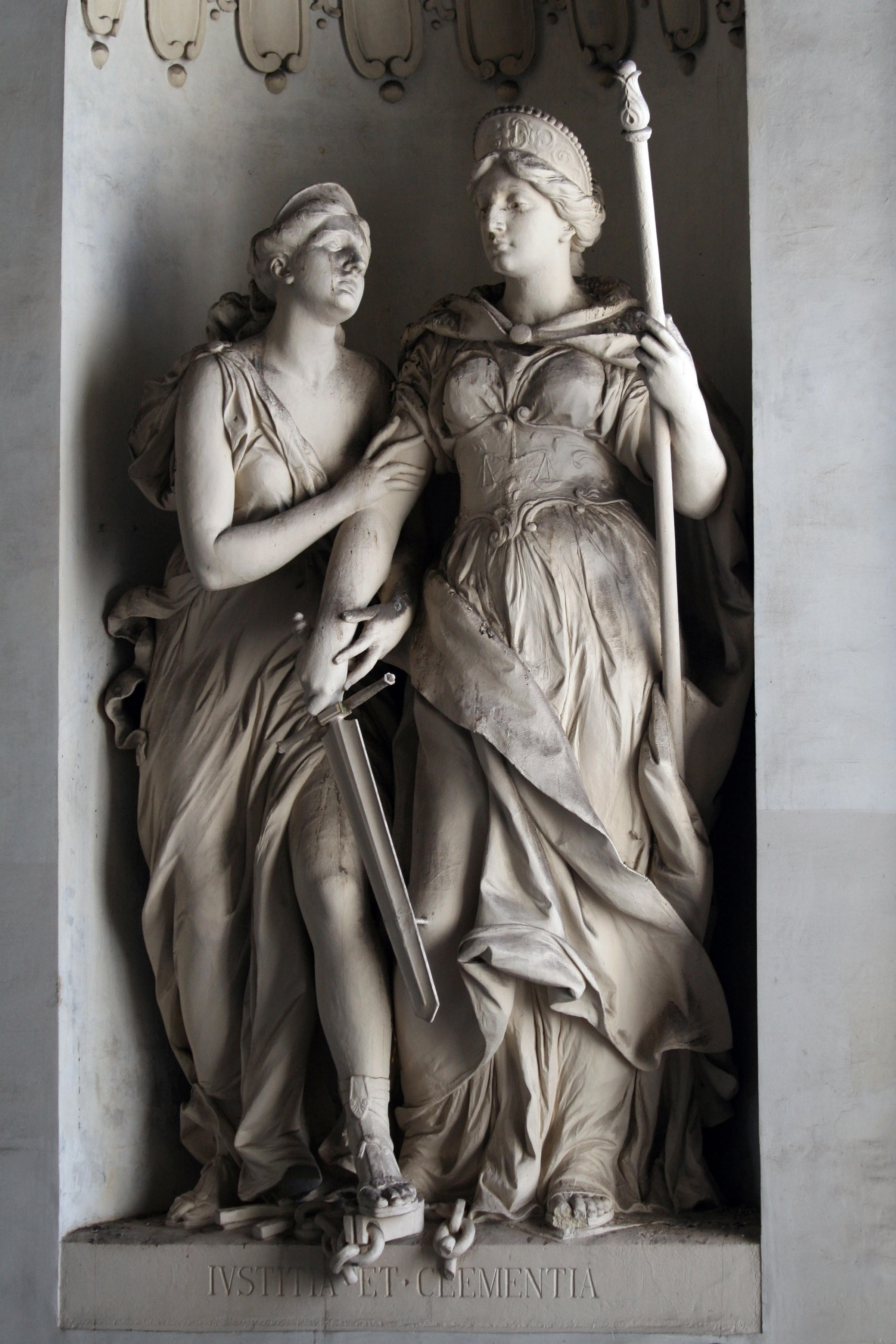 Statues IUSTITIA ET CLEMENTIA at Michaelertor at Hofburg Palace in Vienna, Austria.